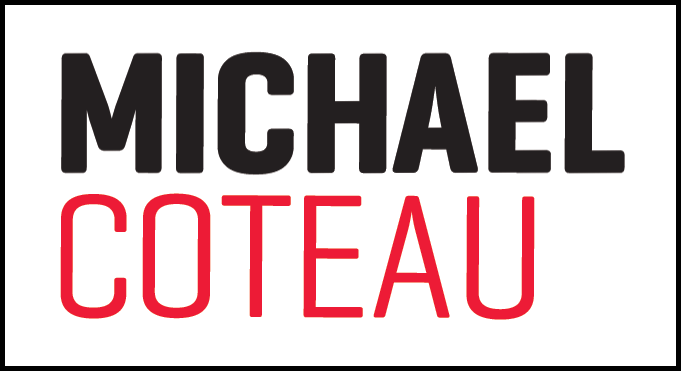 Logo of the Michael Coteau 2020 Ontario Liberal leadership campaign.